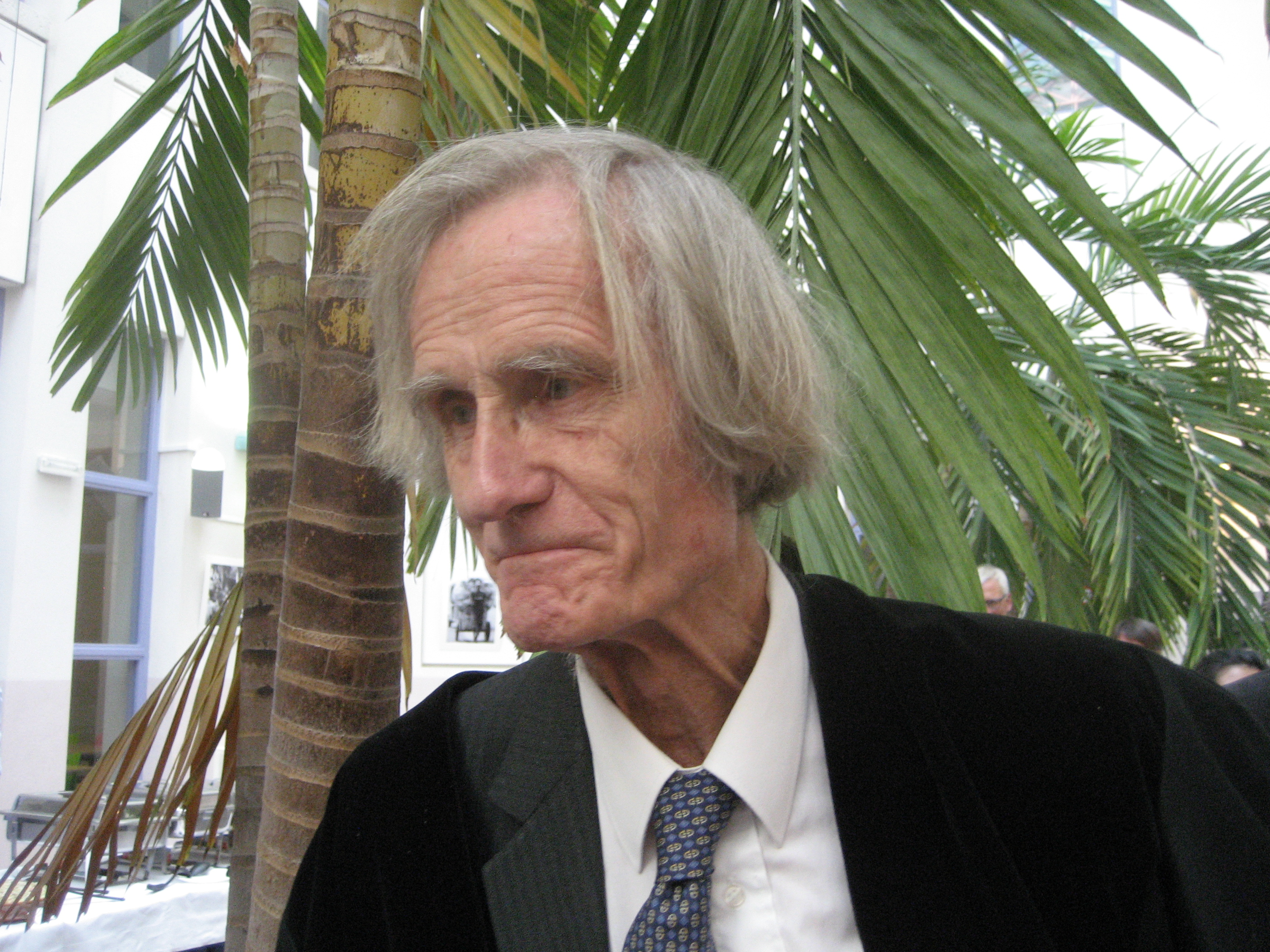 Robert Chambers (born 1932), British sociologist and development specialist, in The Hague (ISS), June 2015